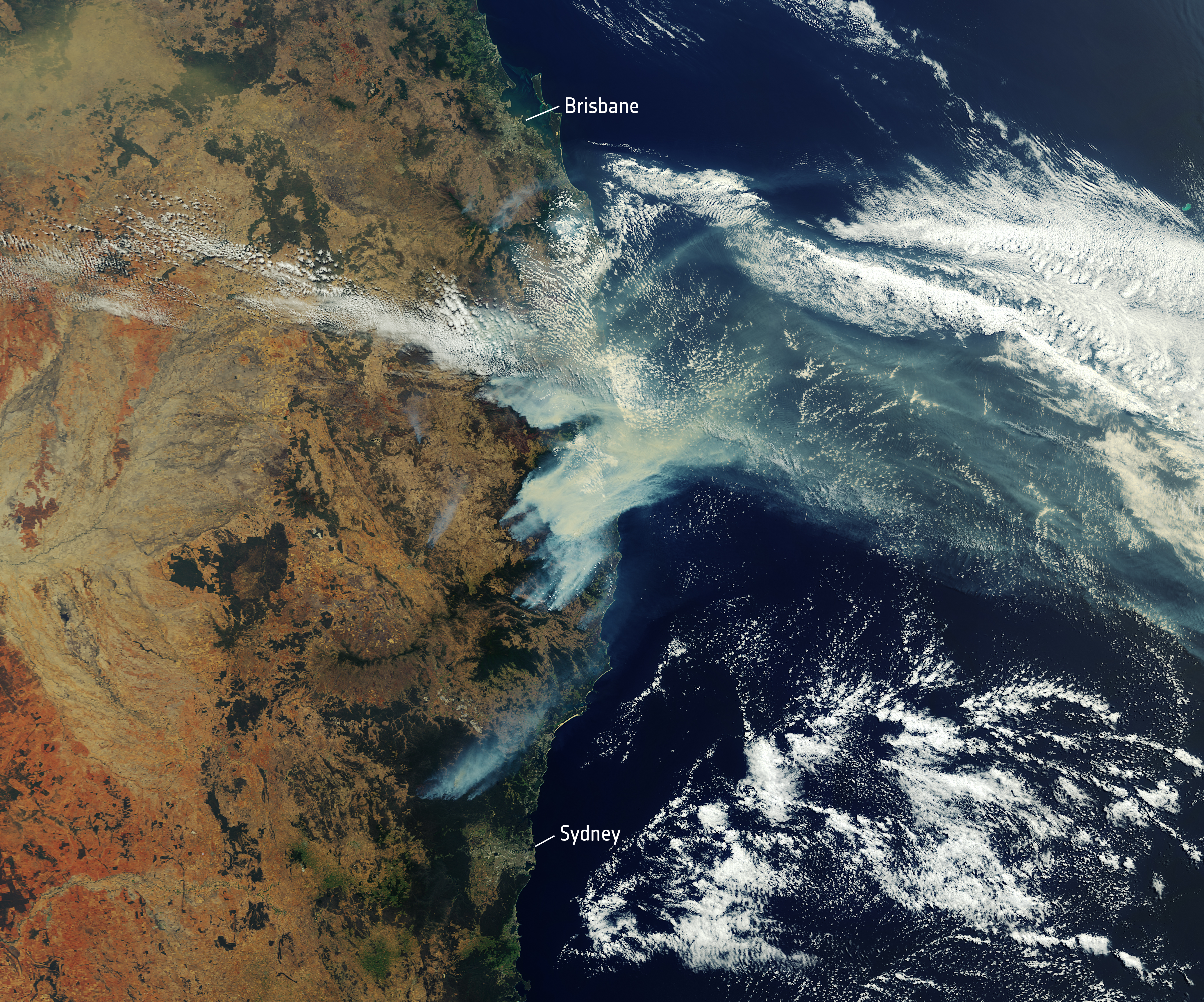 The Copernicus Sentinel-3 mission captured the multiple bushfires burning across Australia’s east coast. Around 150 fires are still burning in New South Wales and Queensland, with hot and dry conditions accompanied with strong winds, said to be spreading the fires. In this image, captured on 12 November 2019 at 23:15 UTC (13 November 09:15 local time), the fires burning near the coast are visible. Plumes of smoke can be seen drifting east over the Tasman Sea. Hazardous air quality owing to the smoke haze has reached the cities of Sydney and Brisbane and is affecting residents, the Australian Environmental Department has warned. Hundreds of homes have been damaged or destroyed, and many residents evacuated. Flame retardant was dropped in some of Sydney’s suburbs as bushfires approached the city centre. Firefighters continue to keep the blazes under control. The Copernicus Emergency Mapping Service was activated to help respond to the fires. The service uses satellite observations to help civil protection authorities and, in cases of disaster, the international humanitarian community, respond to emergencies. Quantifying and monitoring fires is fundamental for the ongoing study of climate, as they have a significant impact on global atmospheric emissions. Data from the Copernicus Sentinel-3 World Fire Atlas shows that there were almost five times as many wildfires in August 2019 compared to August 2018.